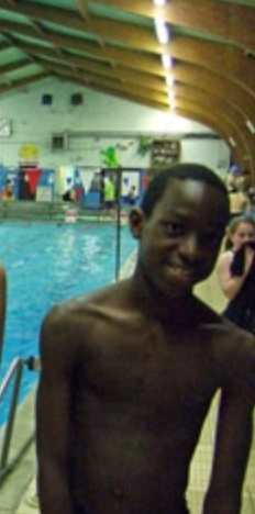 Flexin'